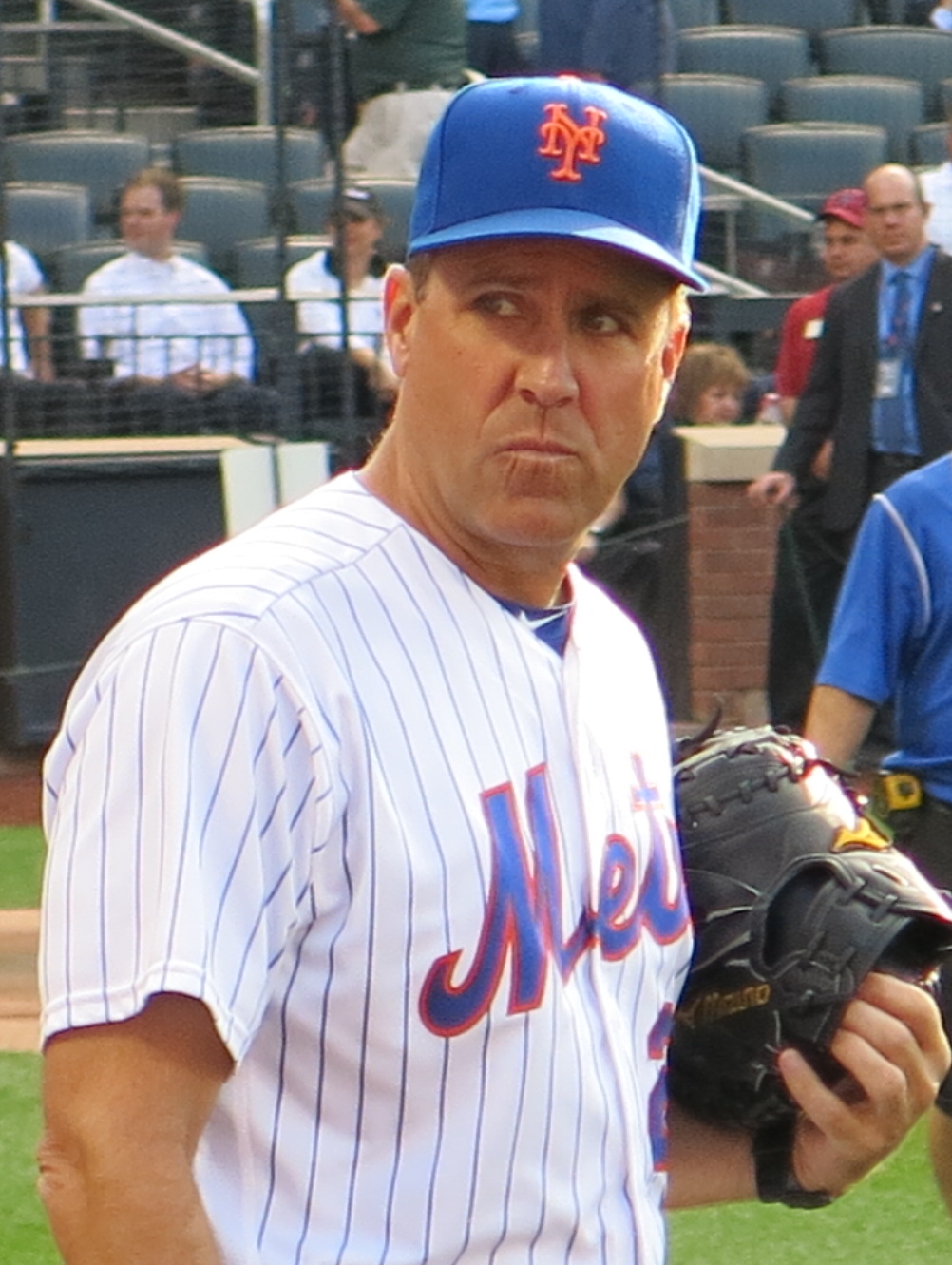 Dick Scott of the New York Mets, August 2, 2016.